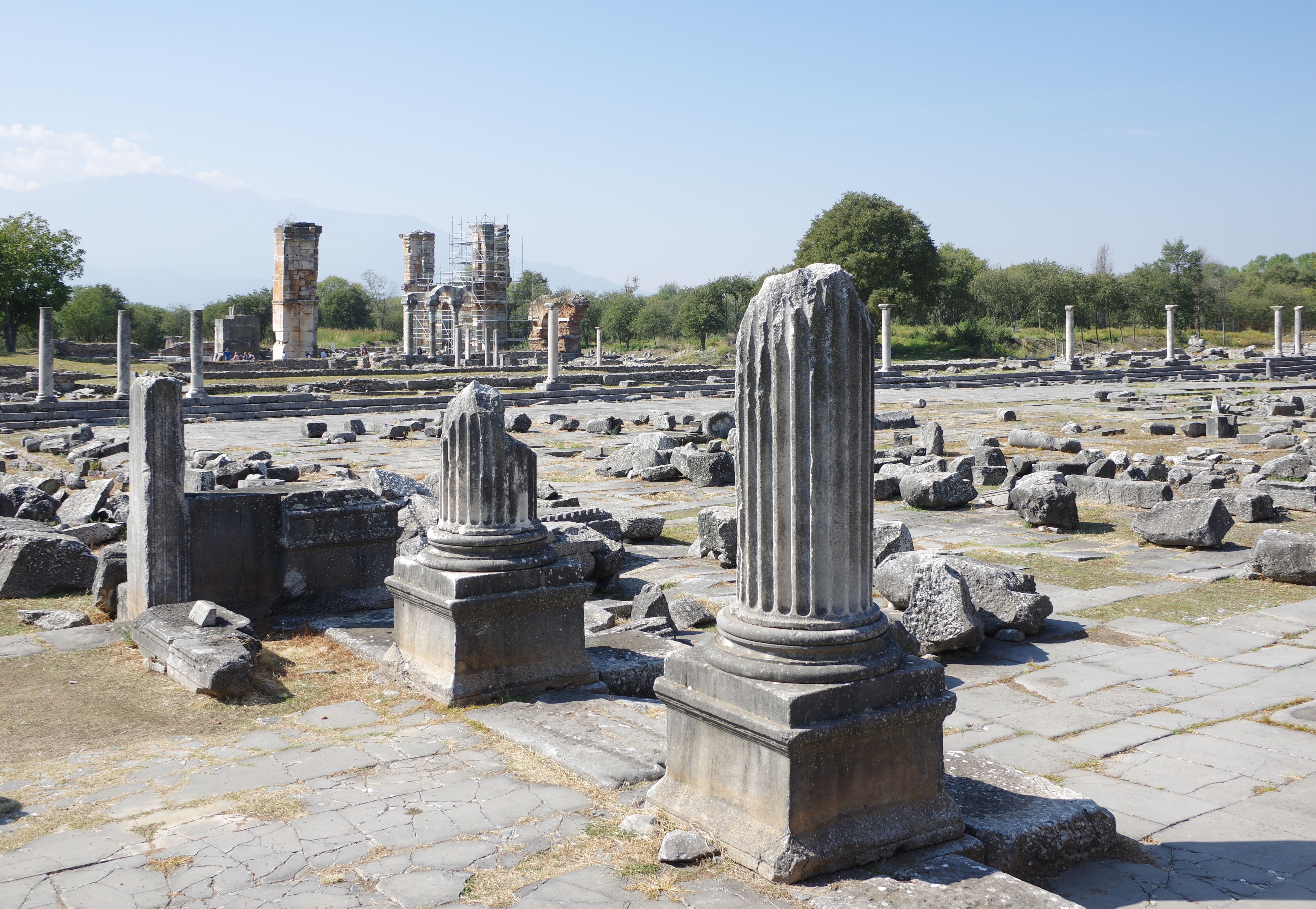 Philippi, Forum